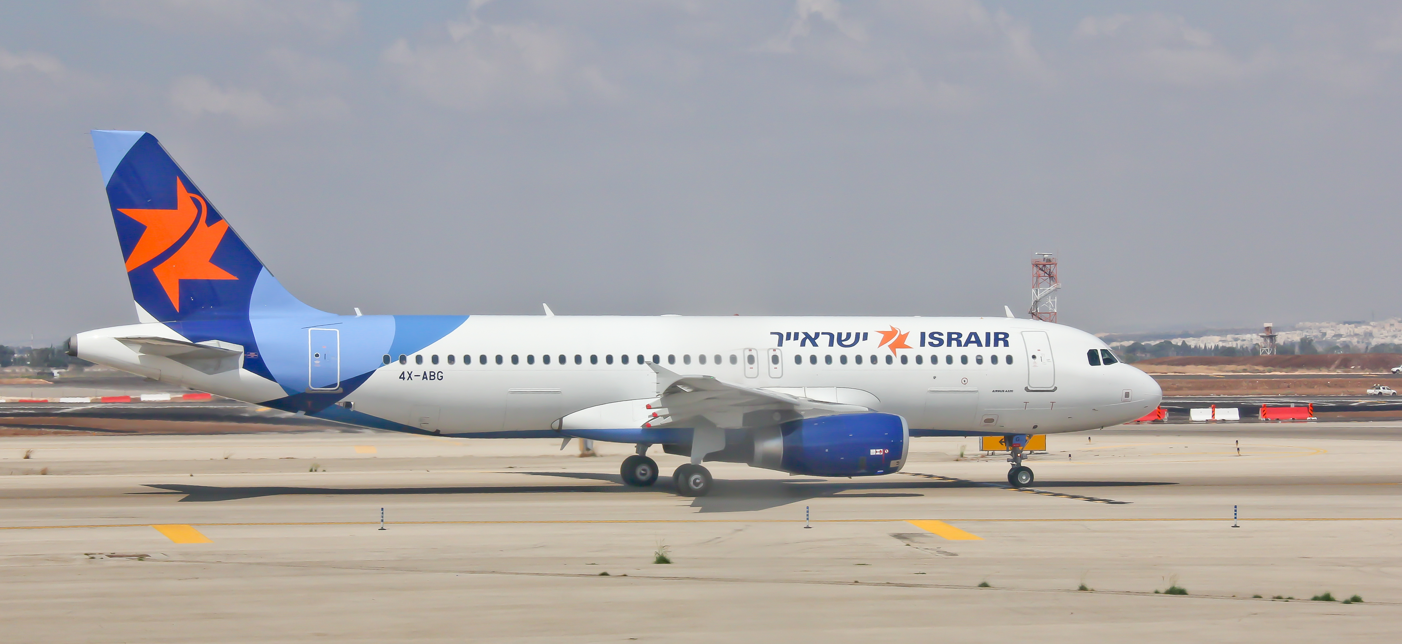 Airplane of Israir - Airbus A320-232 - Airport Tel Aviv Ben Gurion - Registration: 4X-ABG